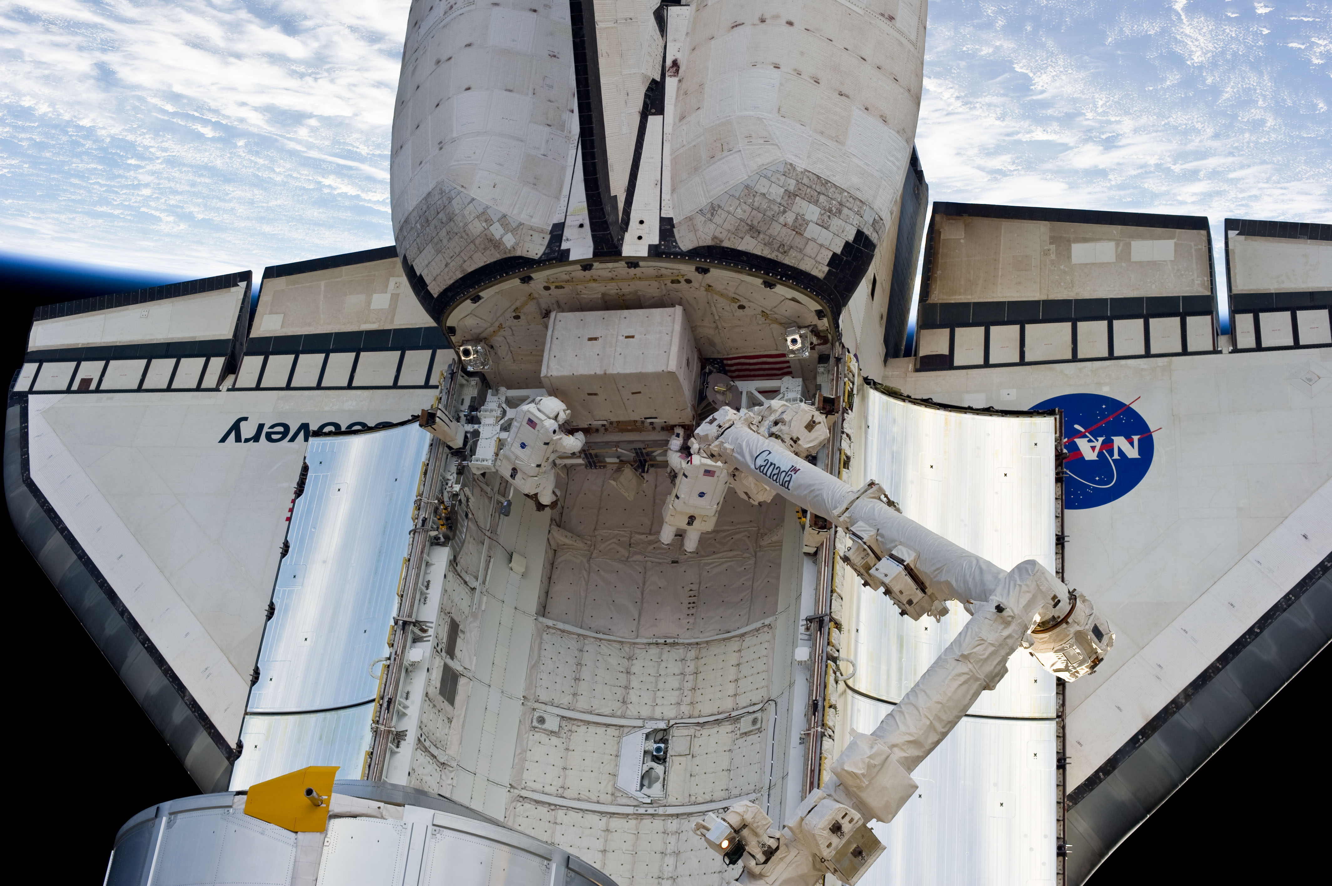 Dwarfed by space shuttle Discovery, NASA astronauts Rick Mastracchio (right) and Clayton Anderson, both STS-131 mission specialists, are seen working in Discovery's aft payload bay during the mission's third and final session of extravehicular activity (EVA) as construction and maintenance continue on the International Space Station. During the six-hour, 24-minute spacewalk, Mastracchio and Anderson hooked up fluid lines of the new 1,700-pound tank, retrieved some micrometeoroid shields from the Quest airlock's exterior, relocated a portable foot restraint and prepared cables on the Zenith 1 truss for a spare Space to Ground Ku-Band antenna, two chores required before space shuttle Atlantis' STS-132/ULF-4 mission in May.